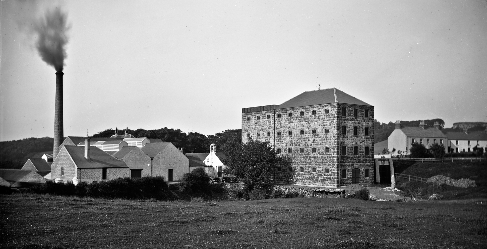 A simple description for an old image of one of the Irelands and the worlds most famous distilleries! Bushmills! The name speaks for itself! What a nice photograph to warm the heart on this very cold Spring day. The Old Bushmills Distillery is a distillery in Bushmills, County Antrim, Northern Ireland. As of December 2014, it was in the process of transitioning from ownership by Diageo plc to Jose Cuervo. All of the whiskey bottled under the Bushmills whiskey brand is produced at the Bushmills Distillery and uses water drawn from Saint Columb's Rill, which is a tributary of the River Bush. The distillery is a popular tourist attraction, with around 120,000 visitors per year. The company that originally built the distillery was formed in 1784, although the date 1608 is printed on the label of the brand – referring to an earlier date when a royal licence was granted to a local landowner to distil whiskey in the area. After various periods of closure in its subsequent history, the distillery has been in continuous operation since it was rebuilt after a fire in 1885. Photographer: Robert French (Uploader's note- French was a commercial photographer, retired in 1917. Collection: Lawrence Photograph Collection Date: between ca. 1865-1914 NLI Ref: L_ROY_03690 You can also view this image, and many thousands of others, on the NLI’s catalogue at